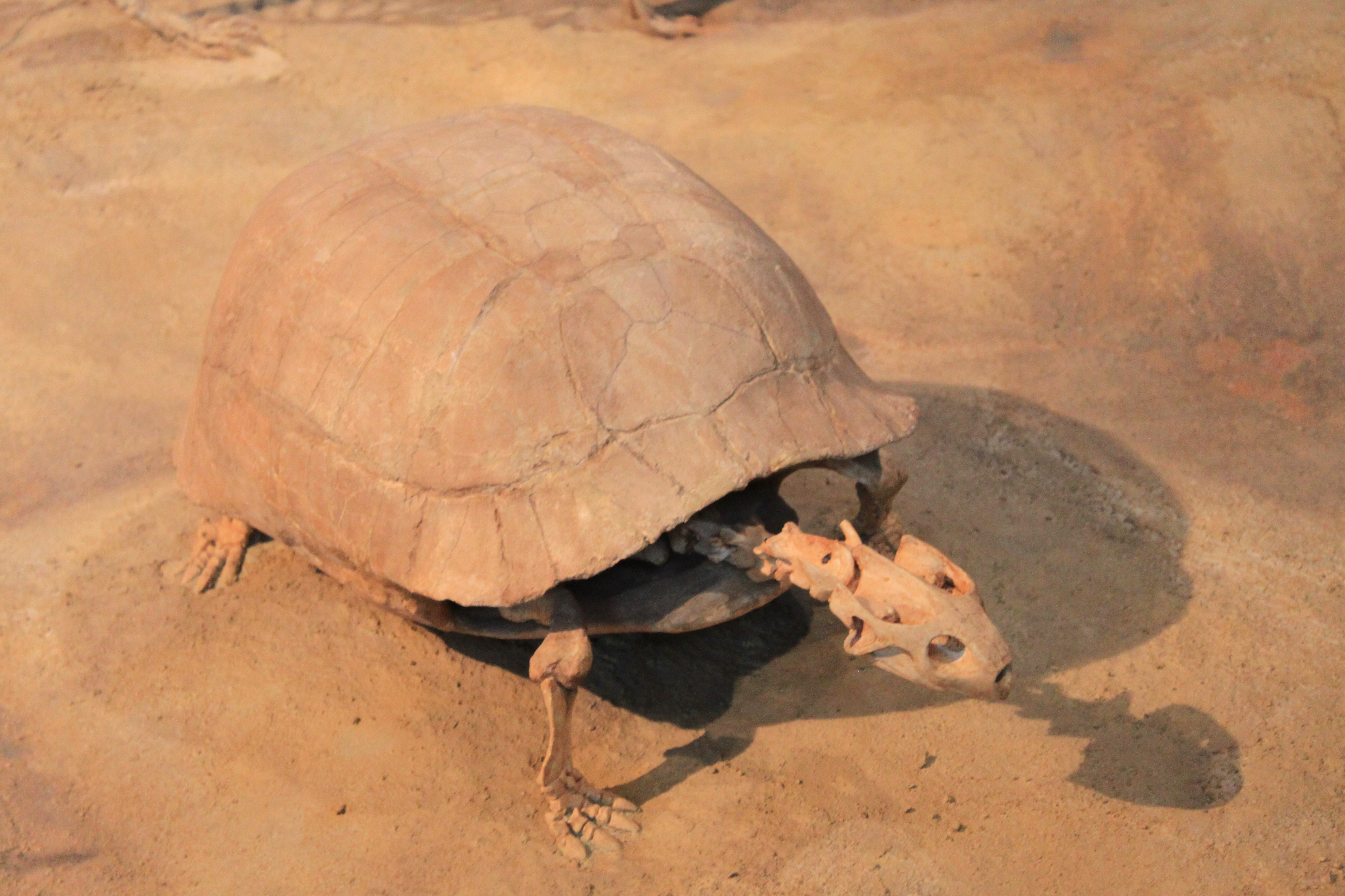 Taken at the Minnosota Science Museum: Dinosaurs and Fossils Gallery. Creative Commons licensed photo by . Please feel free to take and reuse for any purpose.